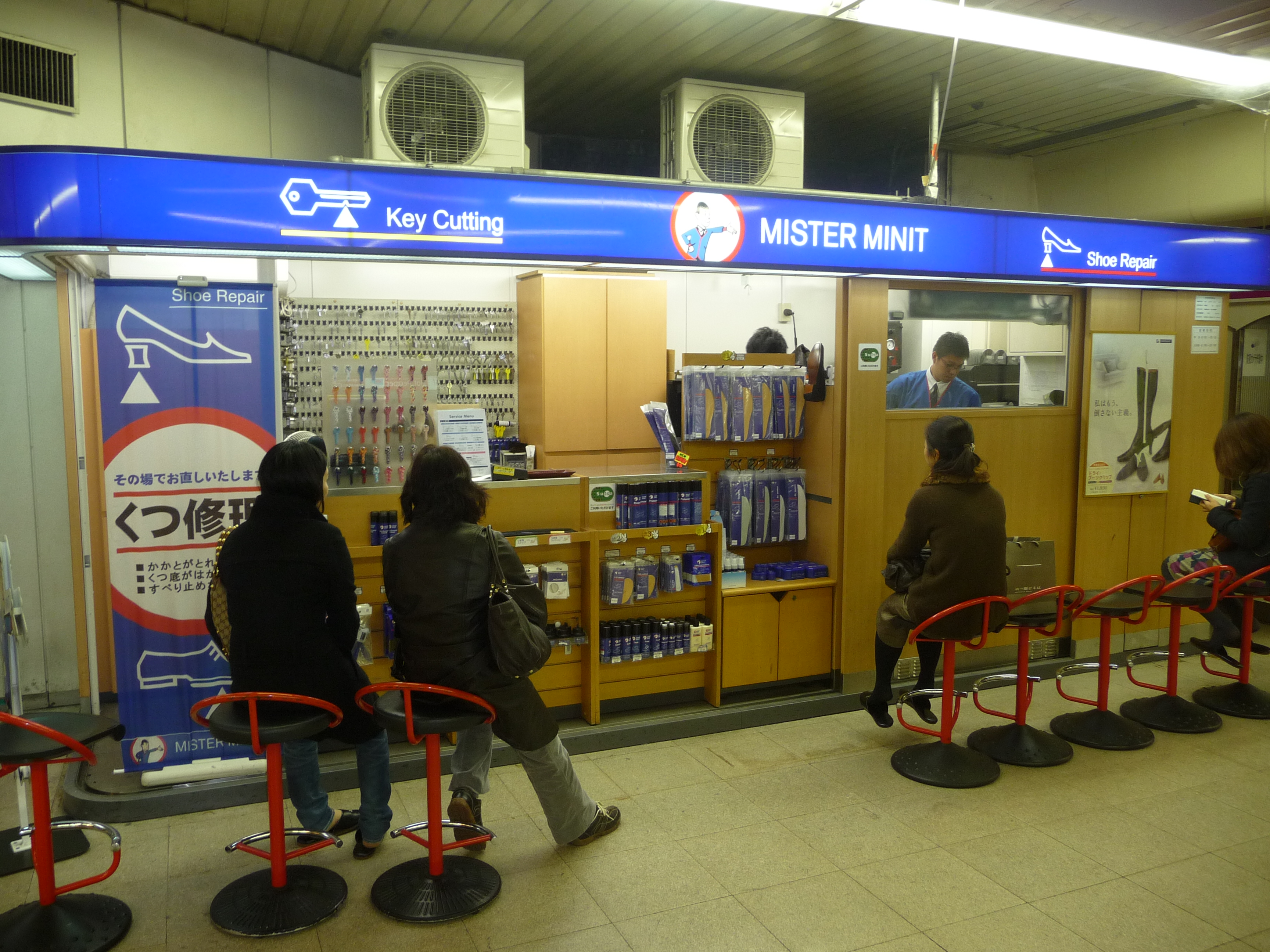 Mr. Mint's are everywhere, having apparently carved the shoe-repair/key-copy niche